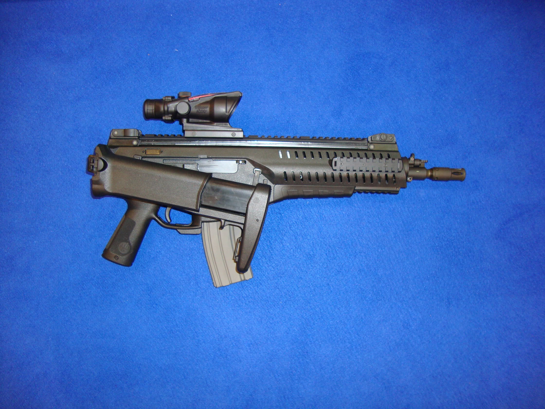 Beretta ARX 160 assault rifle with ACOG sight